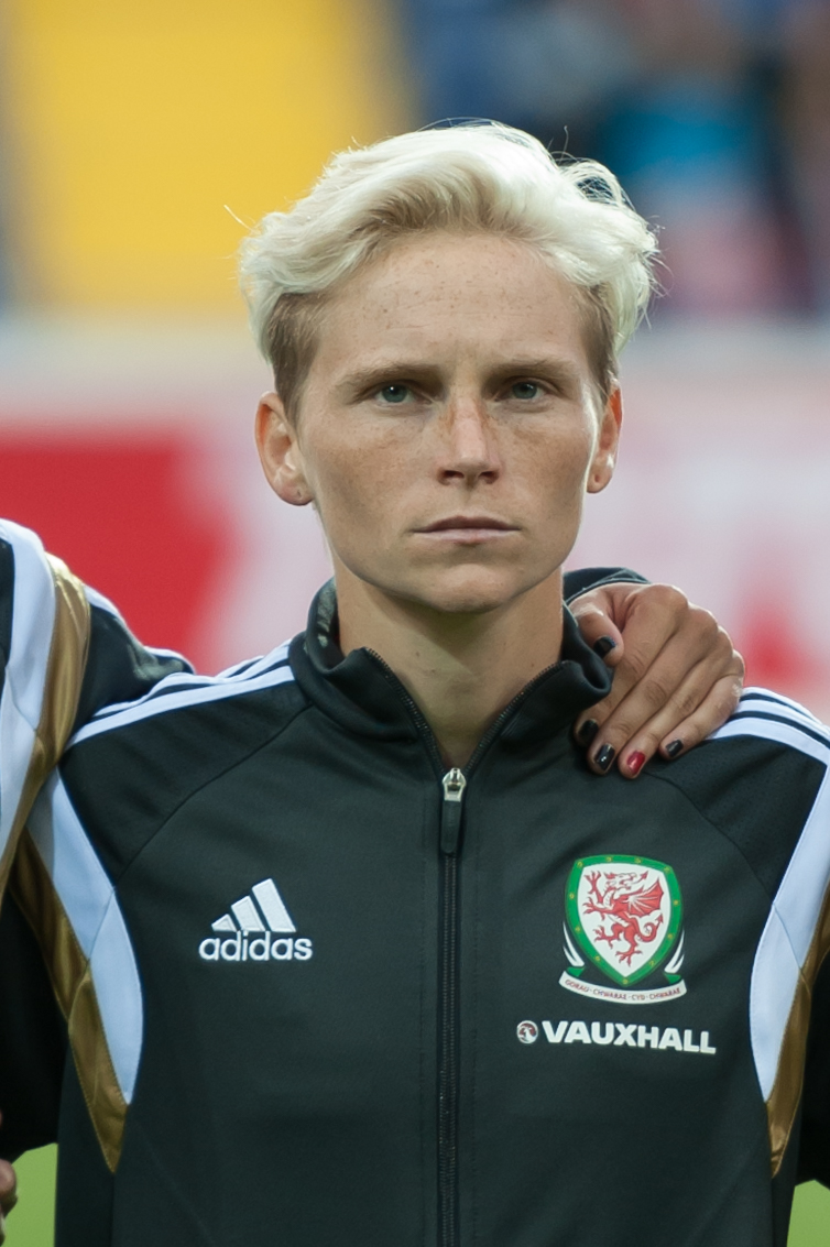 Women's Euro Qualification Austria vs. Wales, 2015-09-22, St. Pölten, Lower Austria